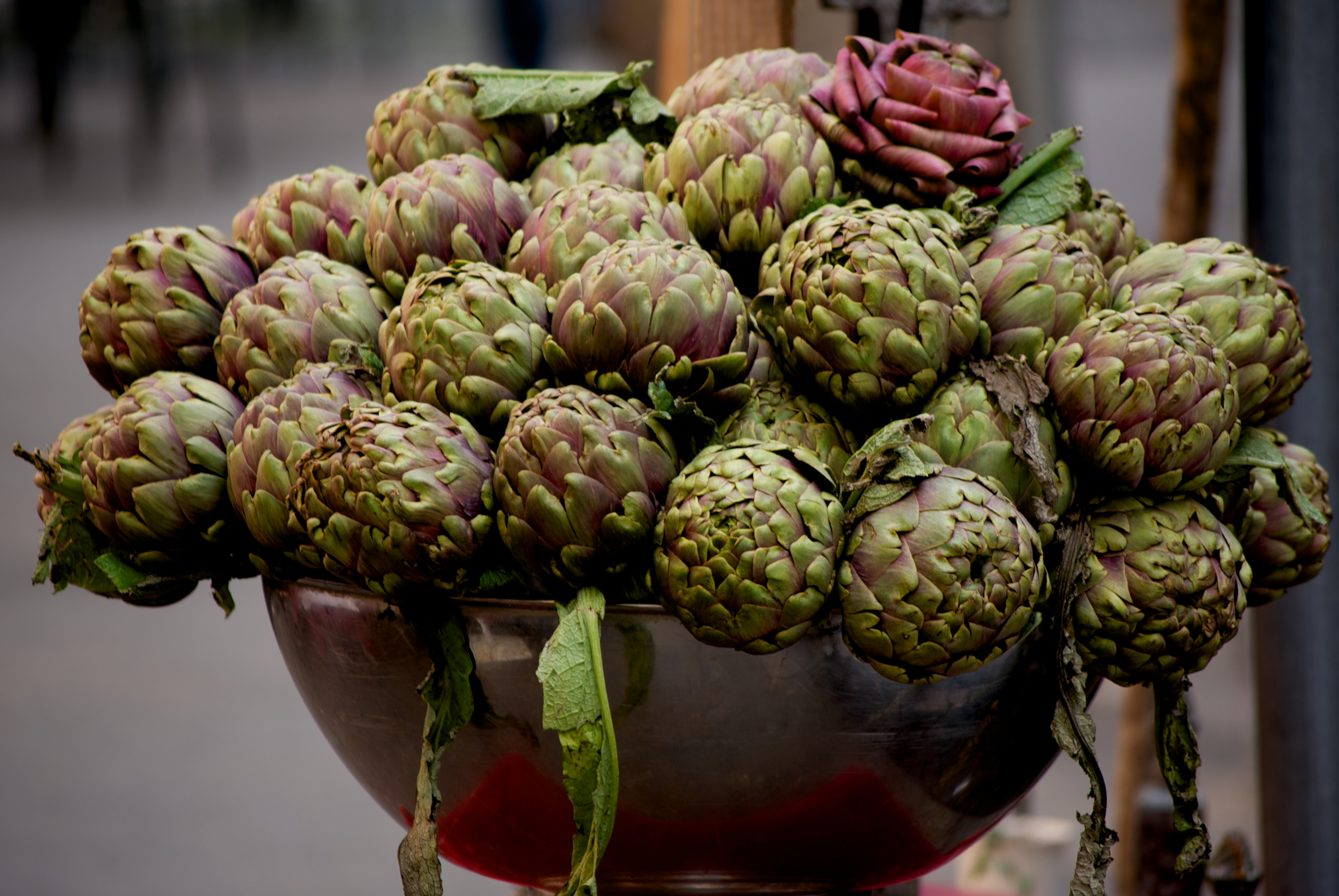 Bunch of Roman artichokes outside a restaurant in Rome (center town) - Italy.